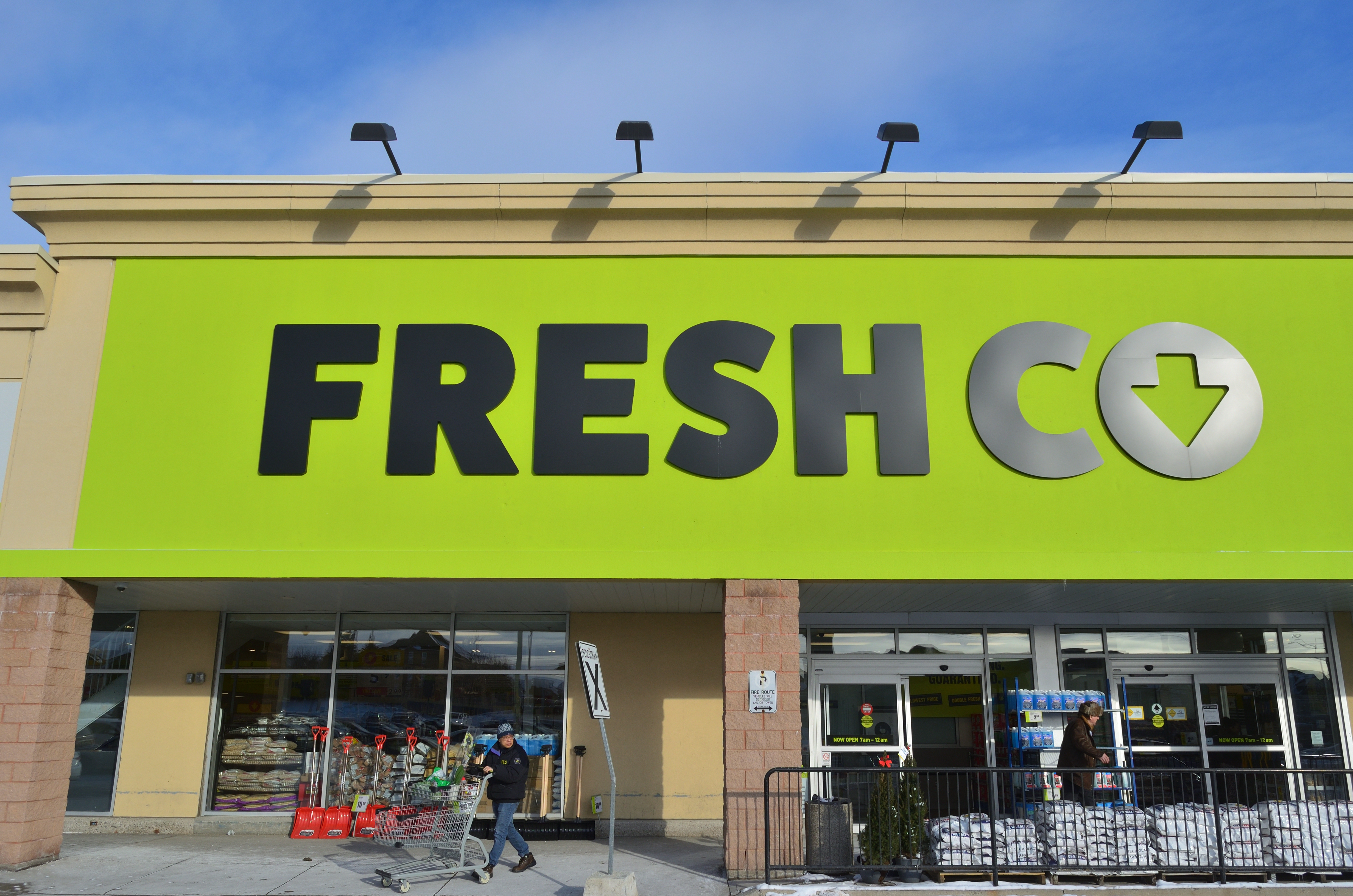 FreshCo Major Mackenzie